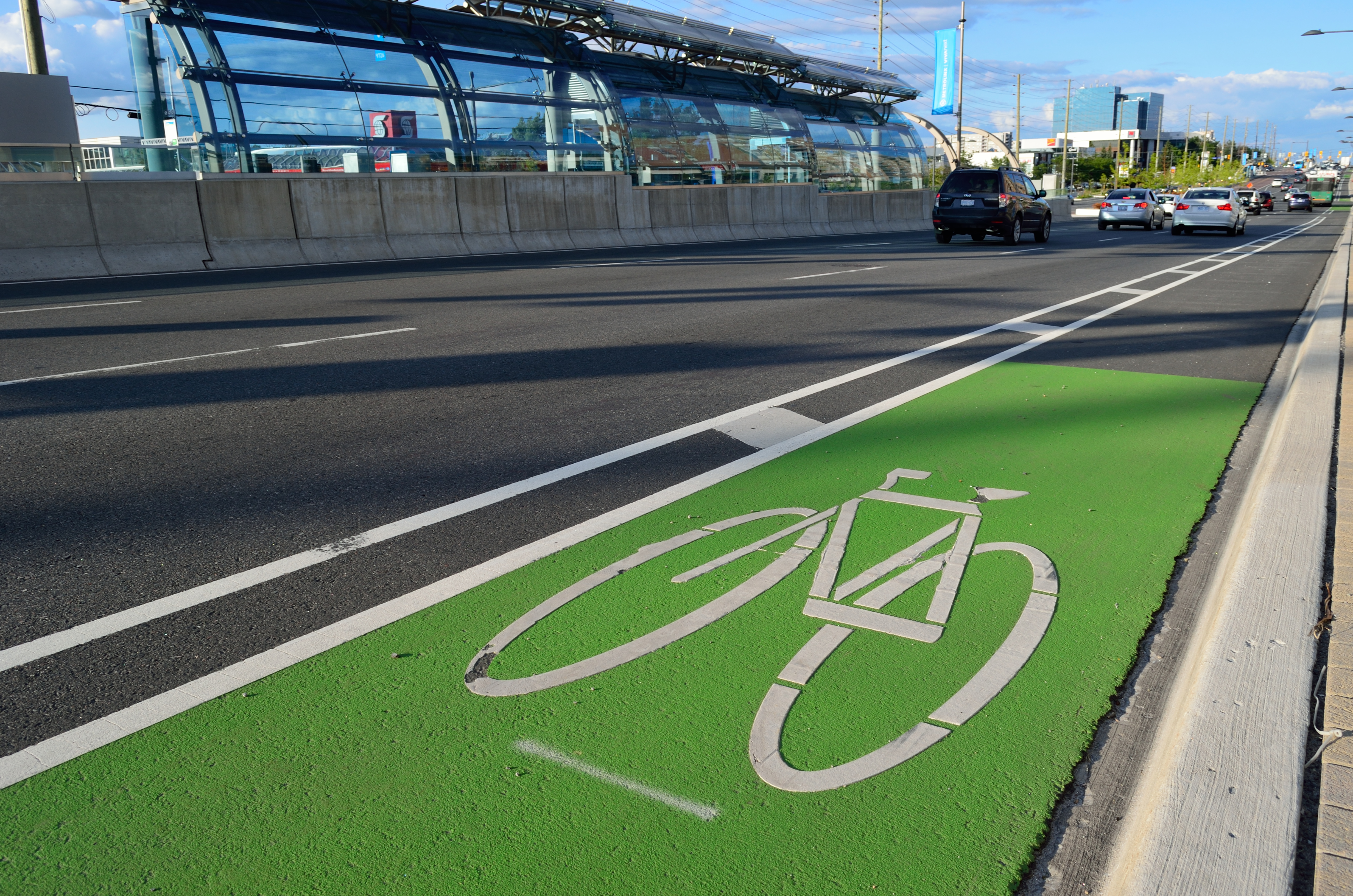 Bike Lane on Highway 7 East